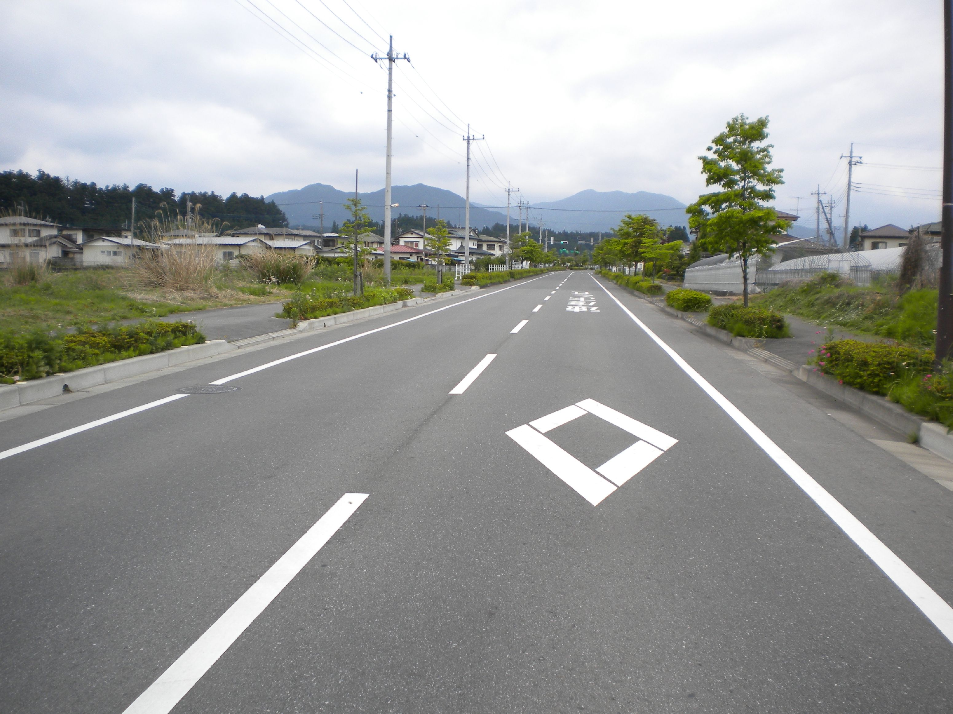 Tochigi prefectural road No.248 on Nikko city